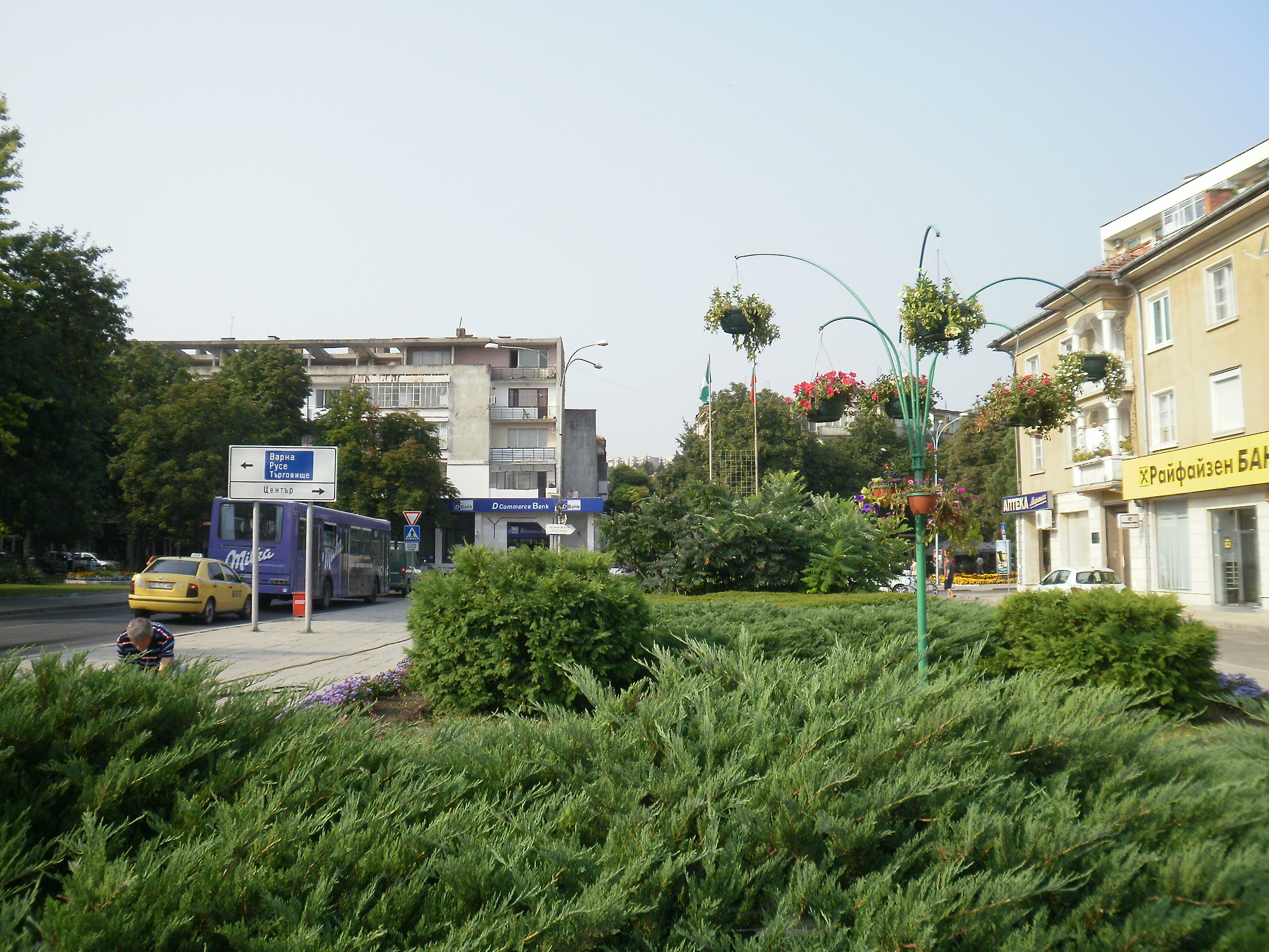 Razgrad, Bulgaria - Vazrazhdane Square